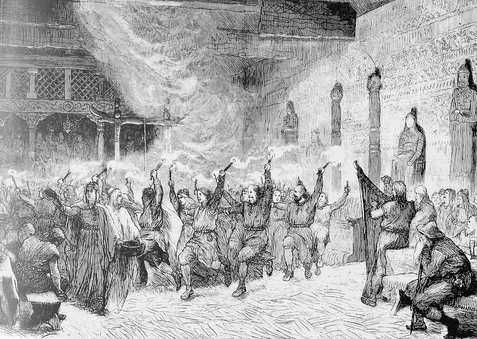 Illustration of pre-Christian celebration